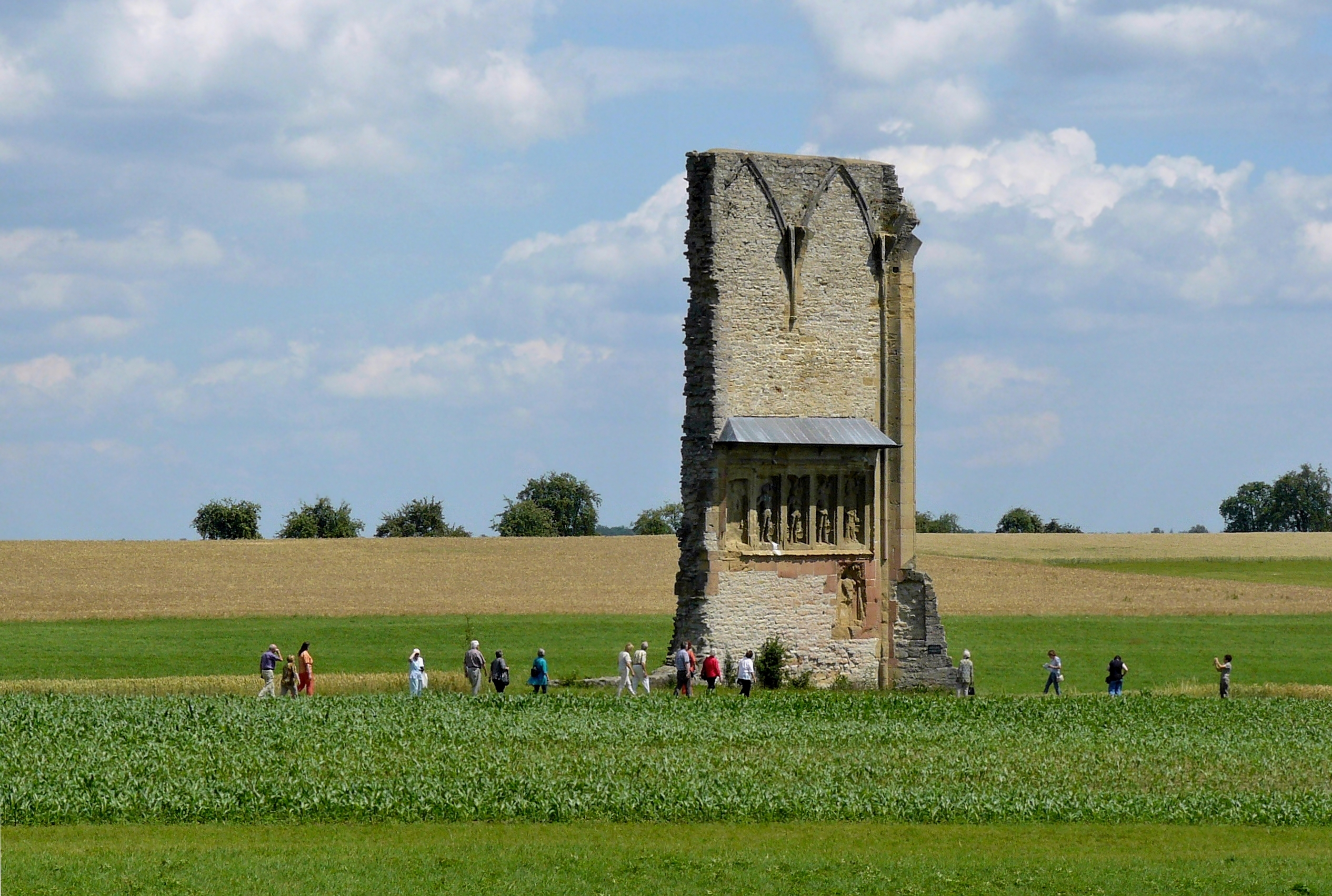 Ruins from the former monastery Anhausen near Satteldorf, the Anhäuser Mauer